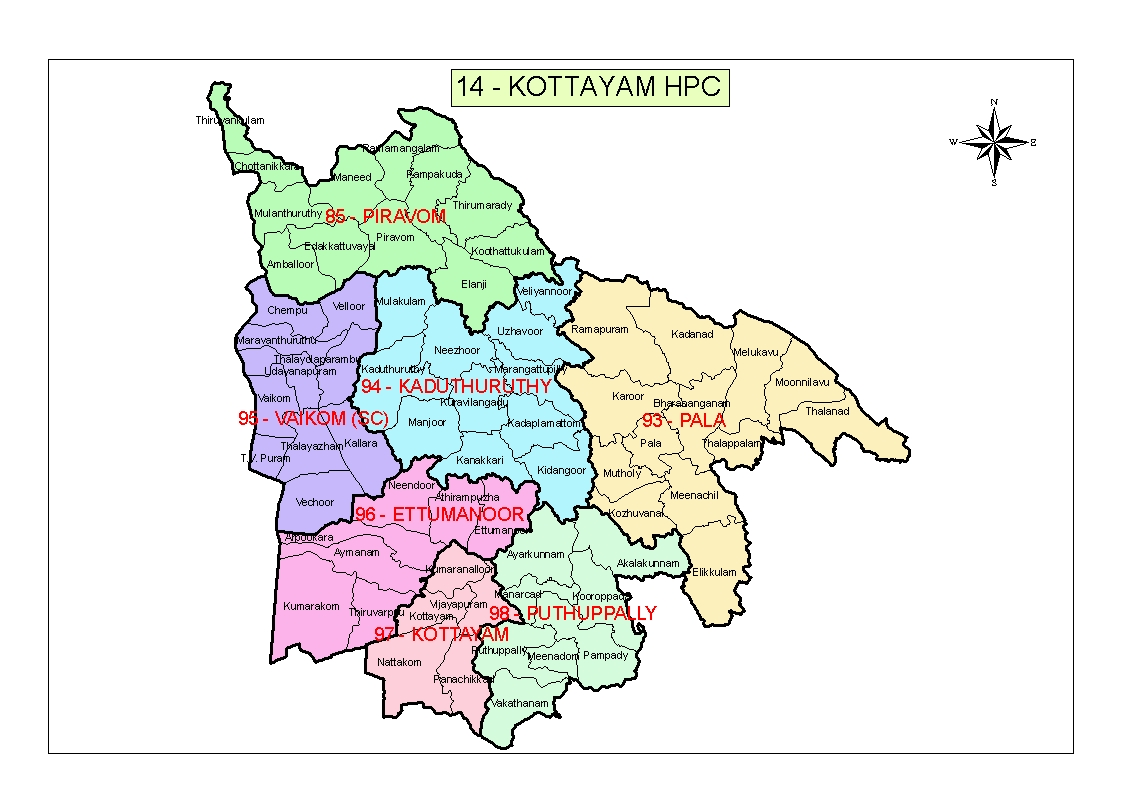 This is the map of Kottayam Lok Sabha Constituency